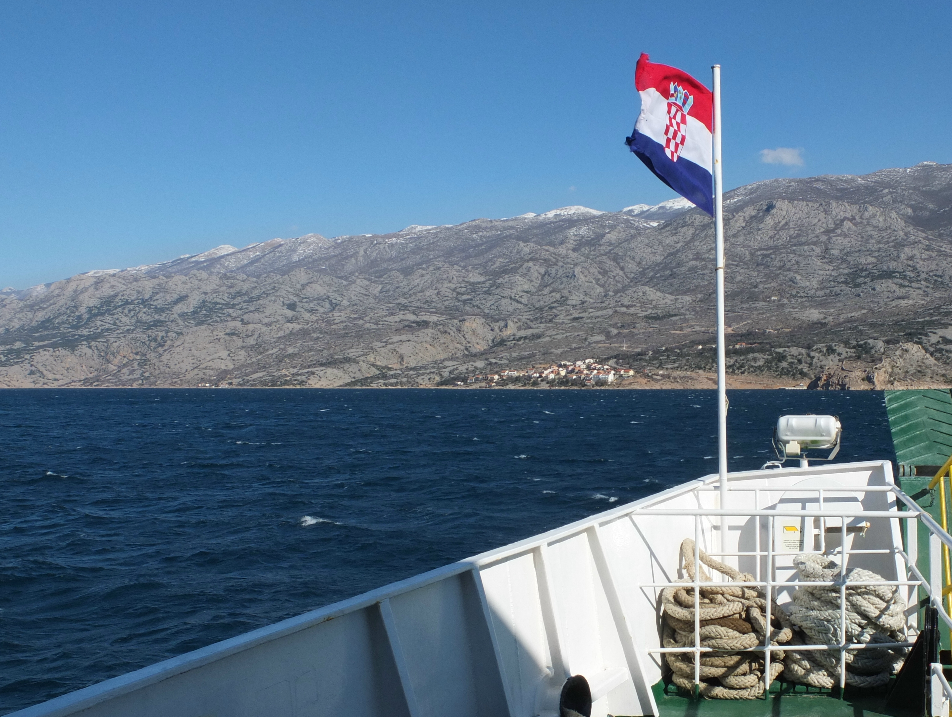 Croatia: Ferry between Prizna (mainland) and Žigljen (Island of Pag), Prizna in the background